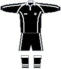 Neath-Swansea Ospreys Kit - Home